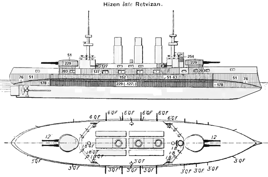 Sketch of the Russian battleships Retvizan - corrected armour scheme, funnels, bow shape according to S.Suliga: Корабли Русско – Японской войны. Часть 1. Российский флот. Given is armour thickness in mm (main belt was 229 mm, tapering to 127 mm at bottom edge)